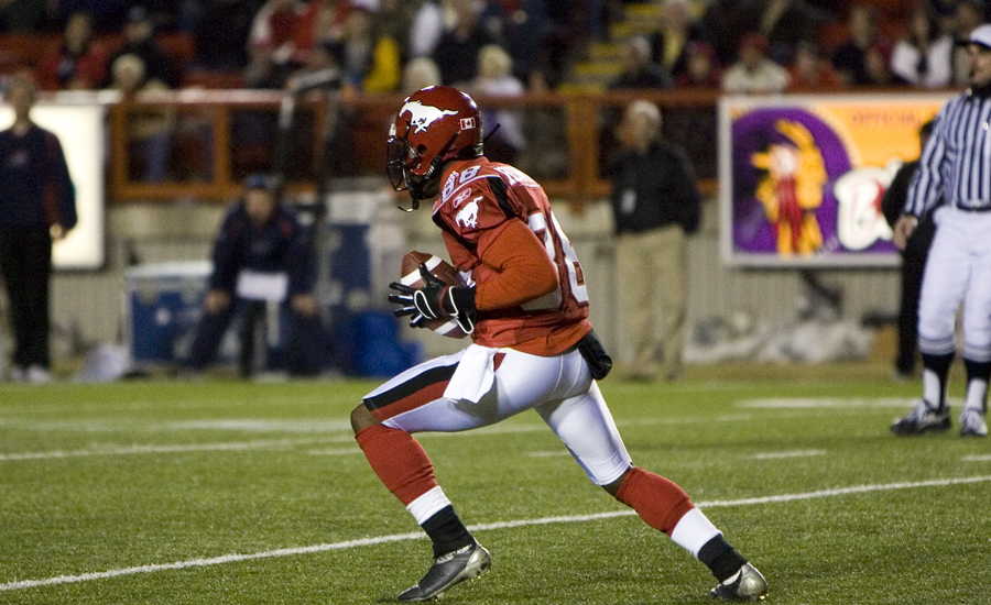 Markus Howell catching a pass.